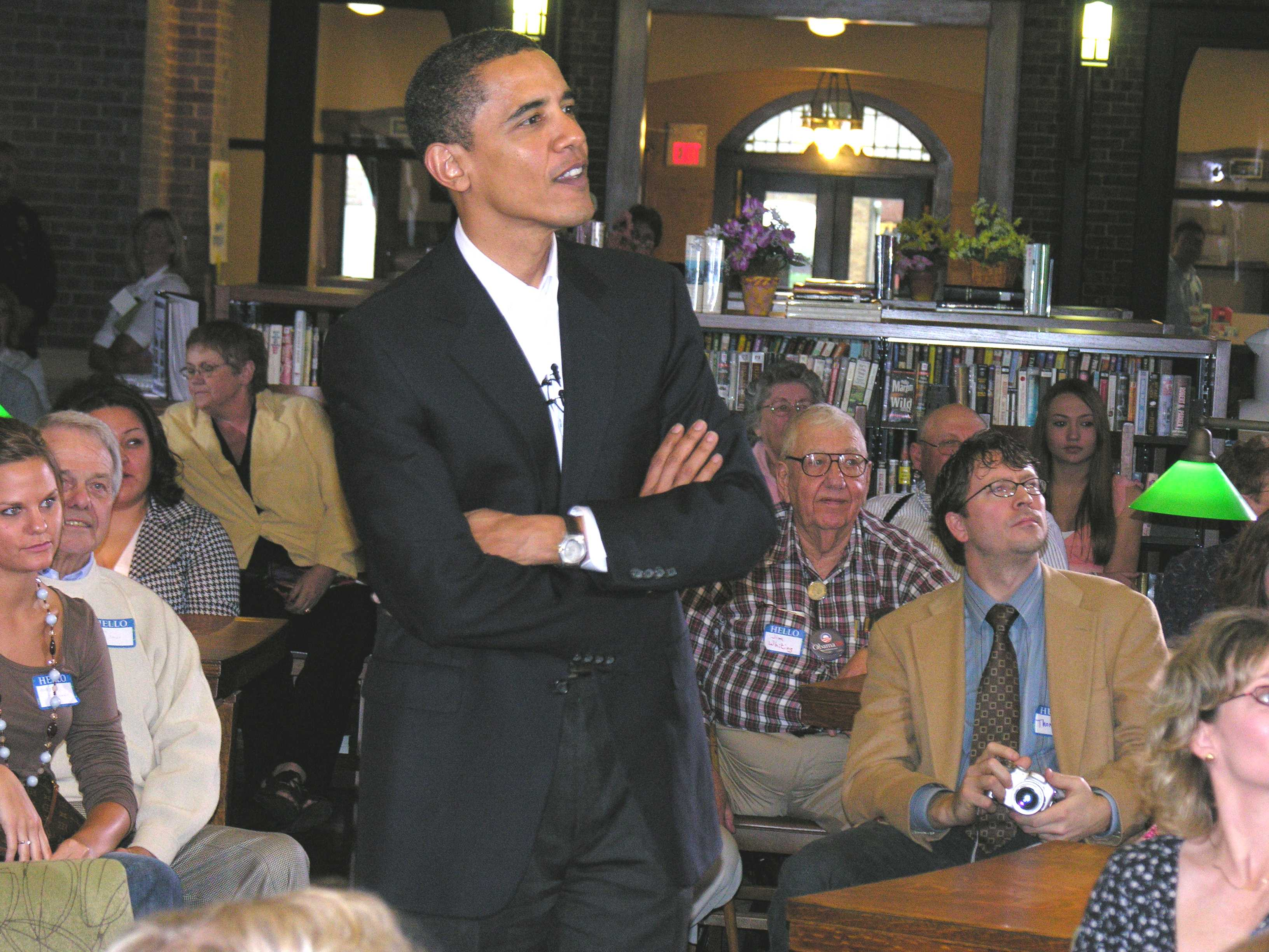 U.S. Sen. Barack Obama campaigns in Onawa, Iowa on March 31, 2007. Onawa Public Library.